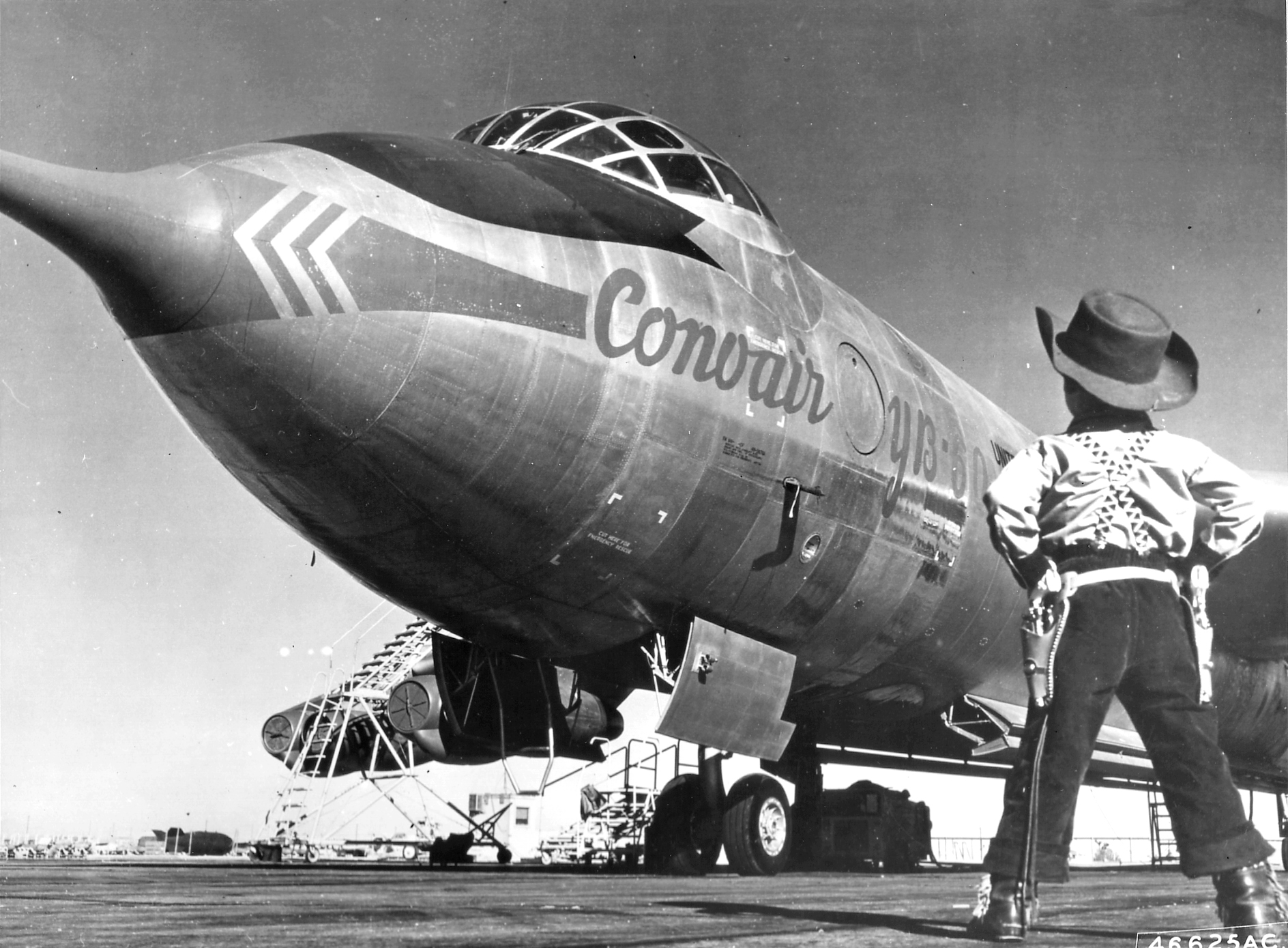 Boy looks at YB-60 1950's -- A young "cowboy", the son of a member of the Air Force Flight Test Center, Edwards Air Force Base, California, looks over the Convair built YB-60 during its visit at Edwards from the Fort Worth, Texas, plant. 1953